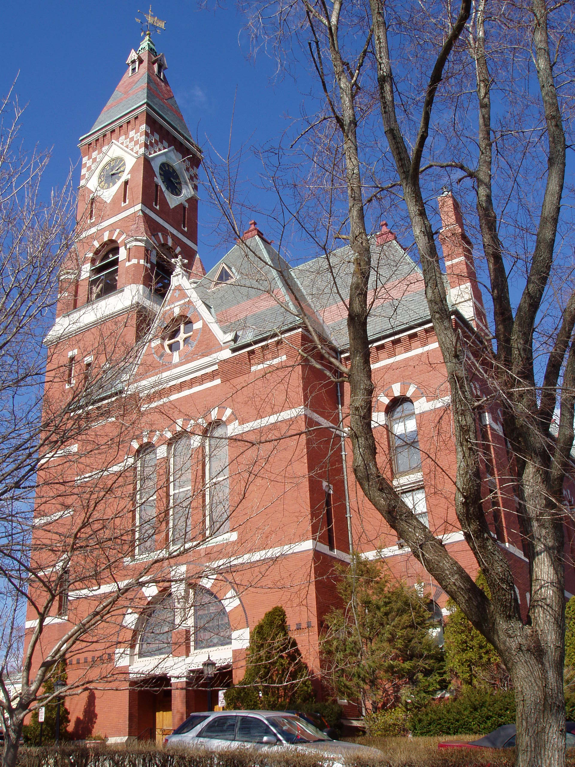 Abbot Hall, in Mablehead, Massachusetts. Photograph taken by me, March 2006.